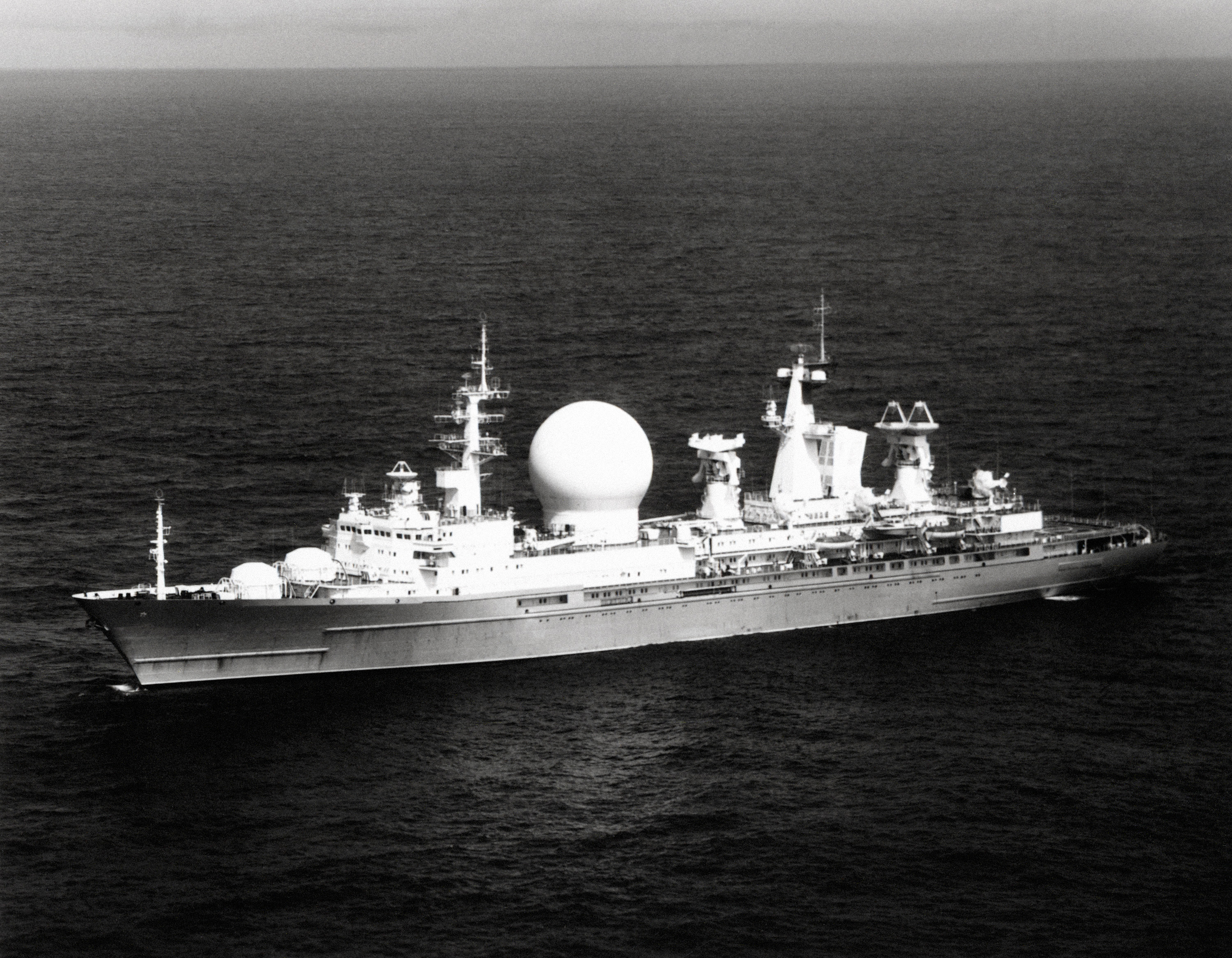 A port view of the Soviet missile range instrumentation ship MARSHAL NEDELIN at sea to monitor a long-range ballistic missile test.